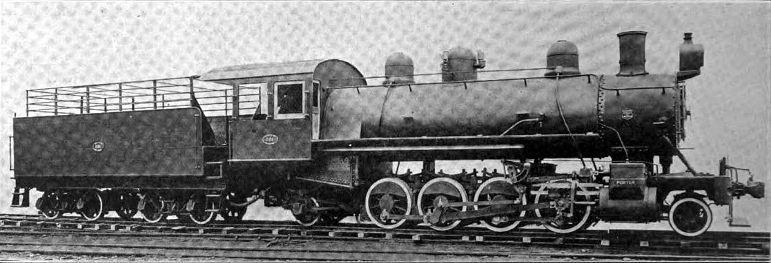 South African Railways Katanga Mikado 2-8-2, built by H.K. Porter, Inc